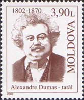 Stamp of Moldova